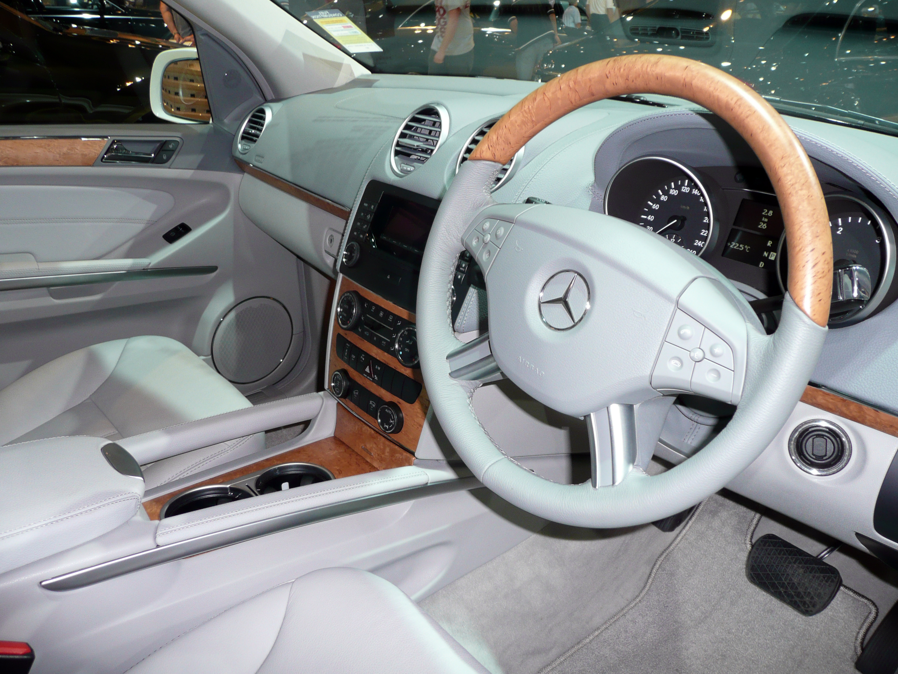 2007 Mercedes-Benz GL 320 CDI (X 164) wagon. Photographed at the 2007 Australian International Motor Show, Sydney, New South Wales, Australia.